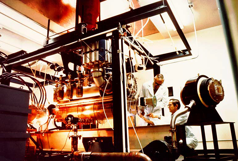 High-Energy, Electron Beam-Stabilized, Carbon Monoxide Electric Discharge Lasers CO-EDL - The first high-energy, electron beam-stabilized, carbon monoxide electric discharge lasers CO-EDL were developed in 1968 at the Northrop Research and Technology Center with support from ONR. At the time, CO-EDL was the most efficient directly excited laser system resulting in electron guns and infrared optics.